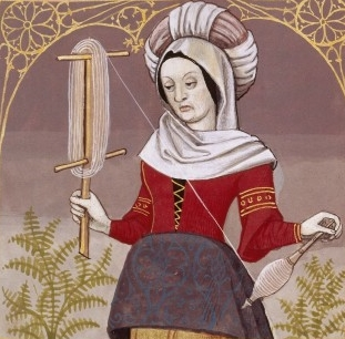 Veturia, roman matron, mother of Coriolanus.